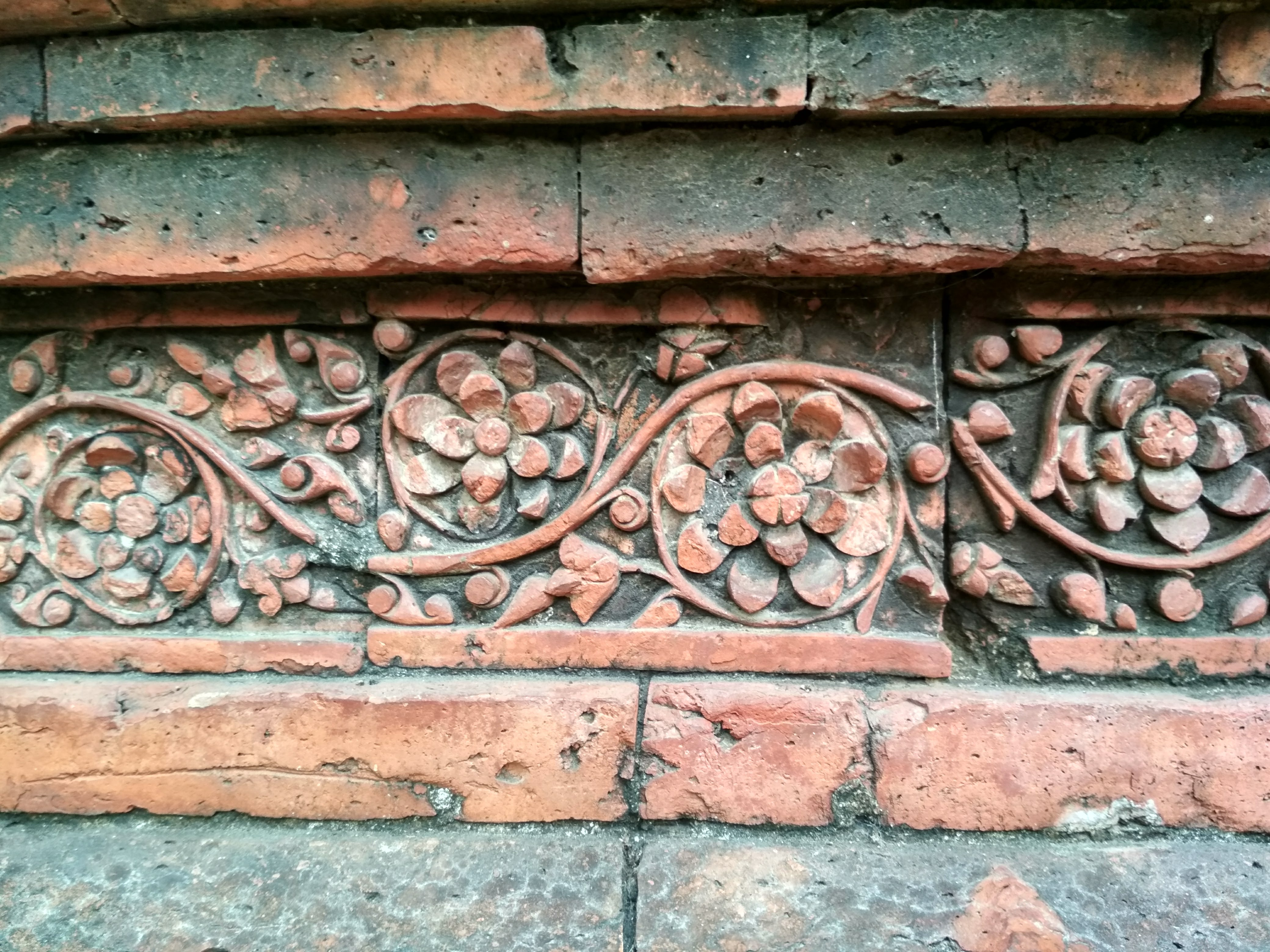 Bagha Mosque is located at Bagha, 25 miles southeast of Rajshahi in Bangladesh. It is a great historical place in Bangladesh. It has wonderful architectural style.